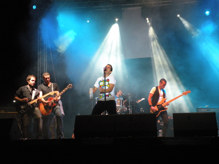 Walden Uno en directo